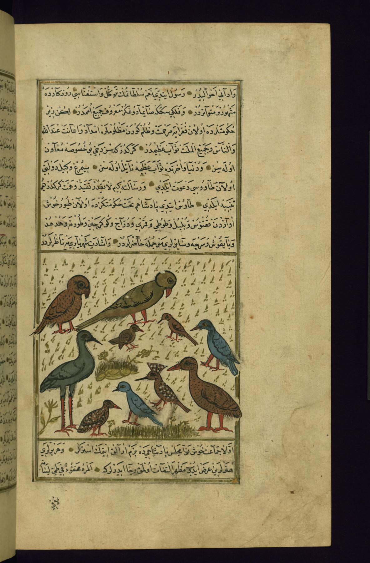 This folio from Walters manuscript W.659 depicts a meeting of the birds.